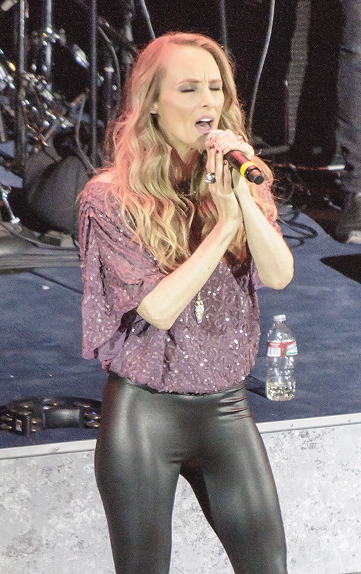 Chynna Phillips performing with Wilson Phillips in 2013.